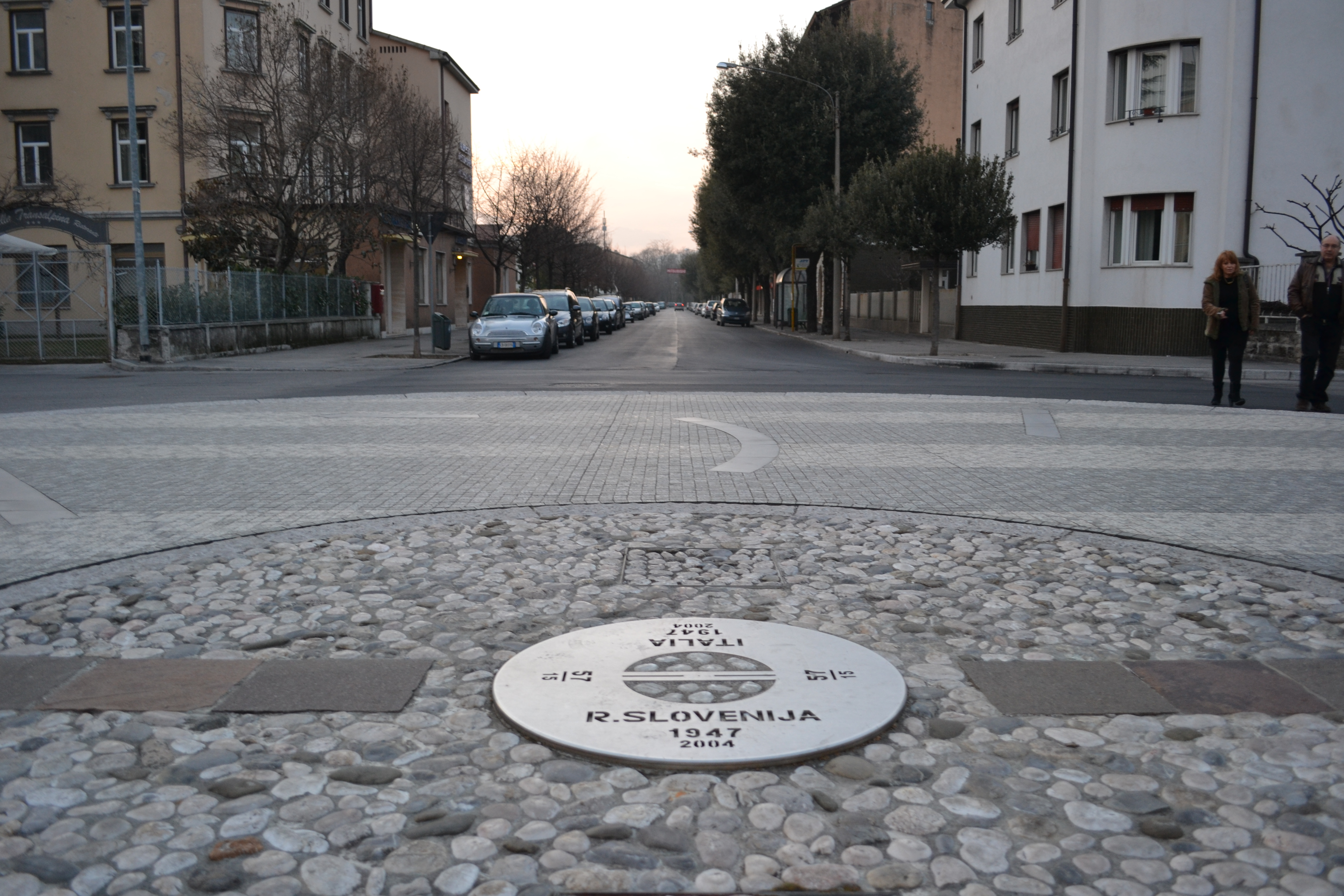 Transalpine Square is a square divided between the towns of Gorizia (Italy) and Nova Gorica (Slovenia).